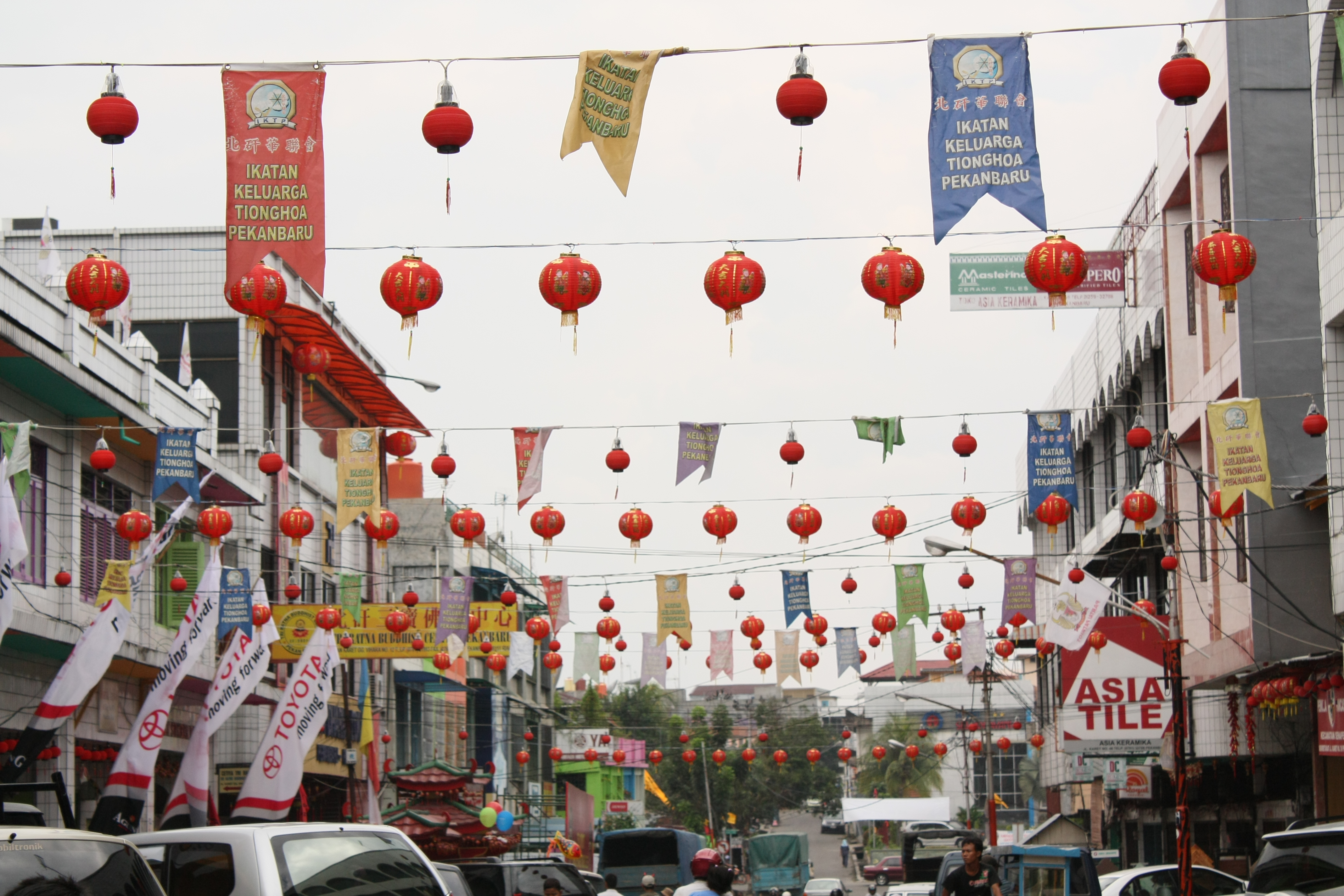 Lanterns in Pekanbaru Chinatown.